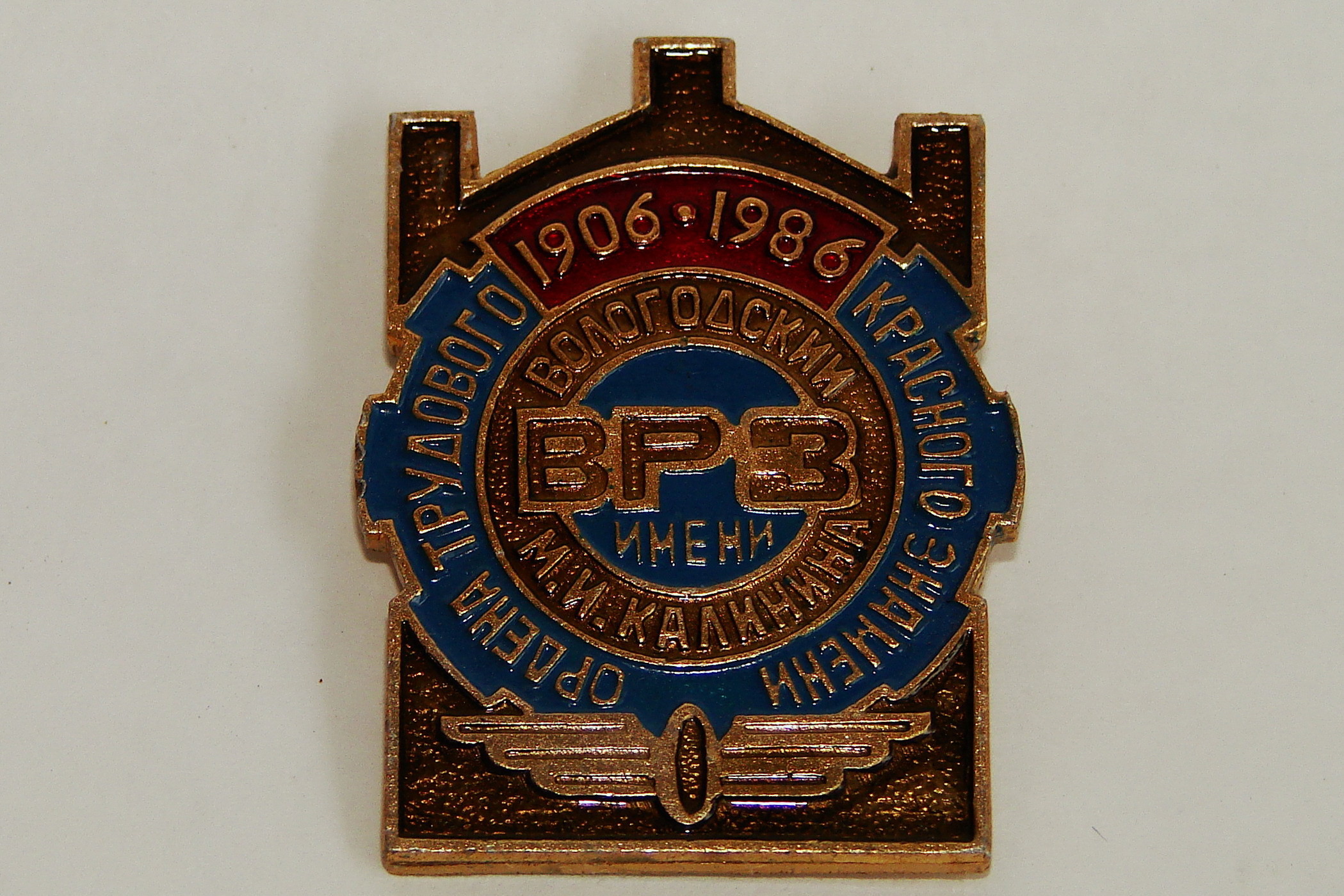 Russia, Vologda Car Repair Plant (VCRP). Memorial sign in honor of the eightieth anniversary of the company